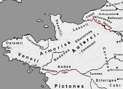 map of Armorica